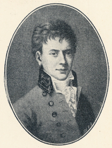 Anders Sandøe Ørsted som ung. Efter et maleri af H. Hansen, 1806.